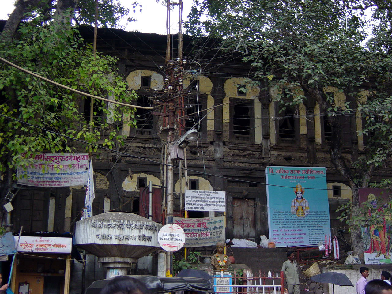 Sarkarwada Nashik